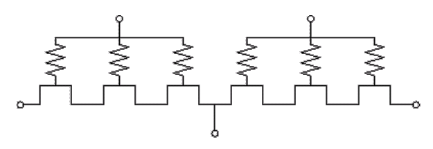 Circuit of Well-Known Standard High Frequency FET Switch